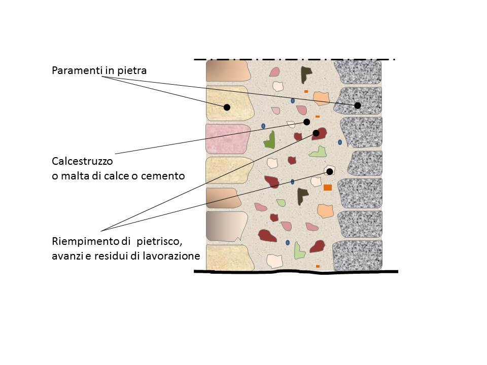 Rubble masonry. Extenal stone walls, concrete fill